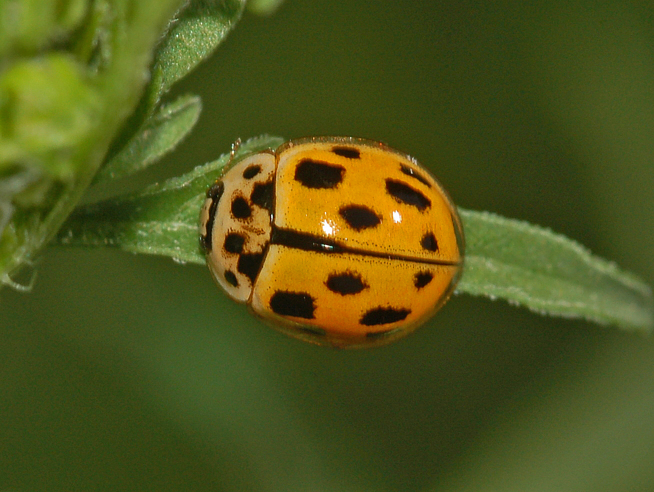 Propylea quatuordecimpunctata yellow variant. Genova, Italy